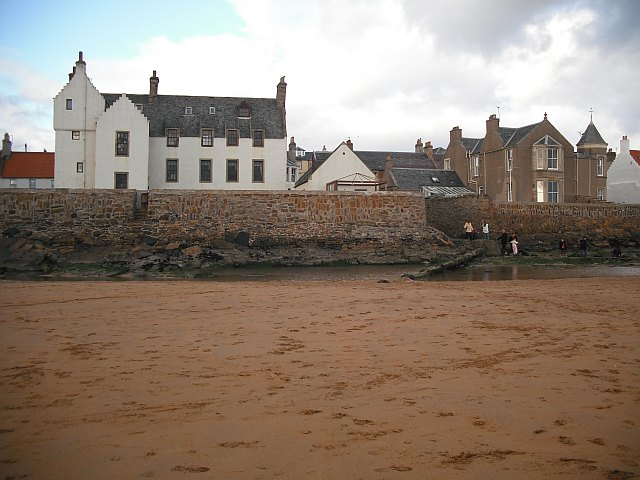 Elie from the beach Its worth knowing where the exit points are from the beach here. View of the sea wall and village from near the advancing tide line.